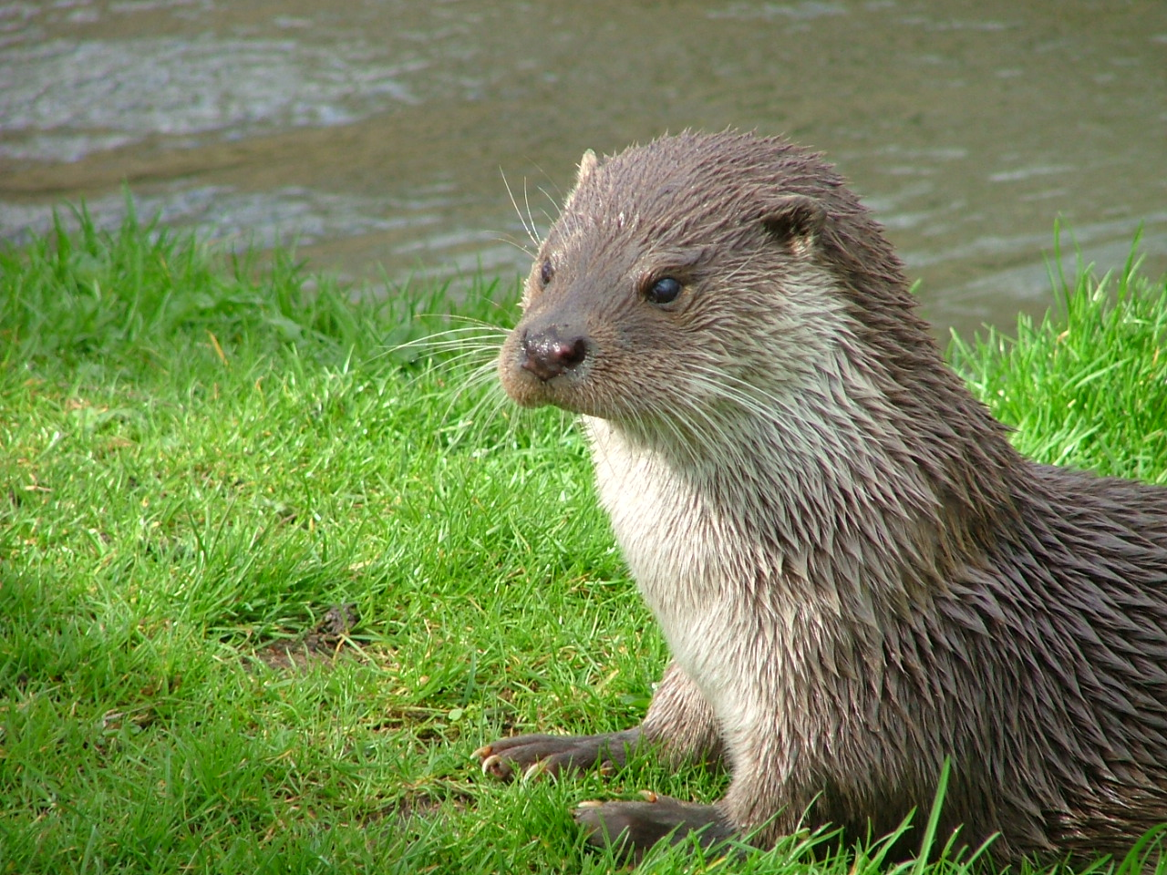 Otter in Southwold, Suffolk, EnglandOtter